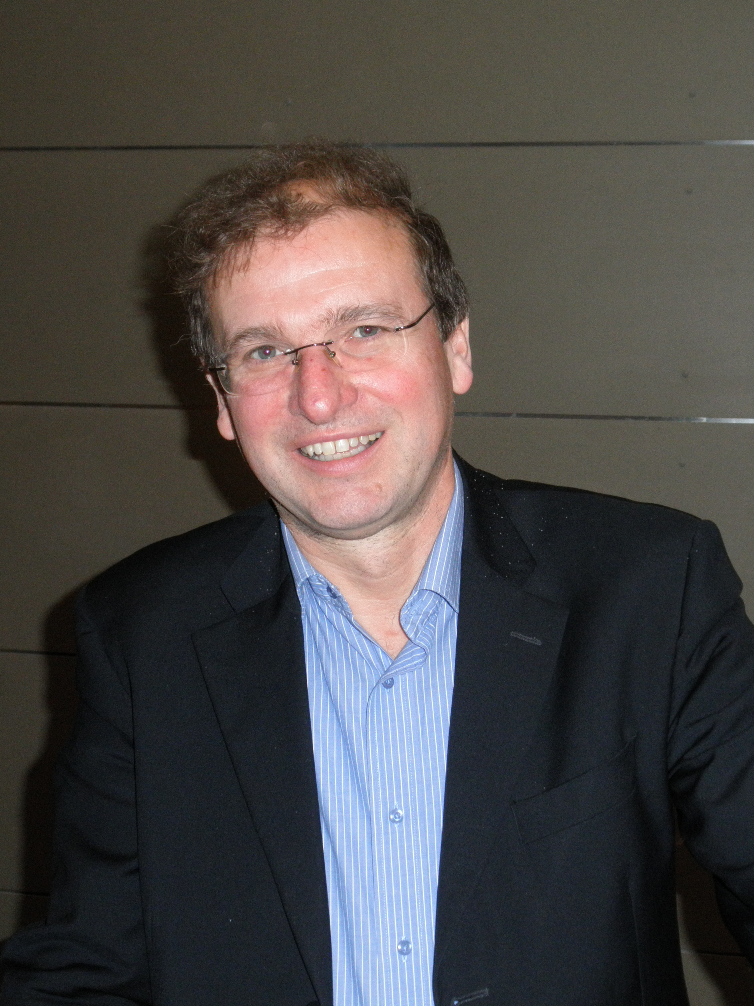 Czech lawyer Ivo Telec